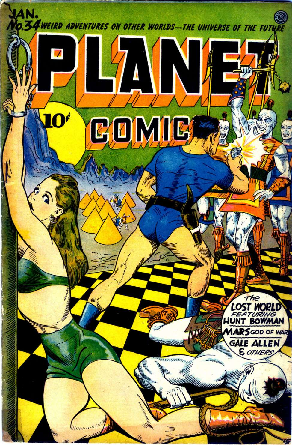 Cover scan of Planet Comics, No. 34, Fiction House, January 1945.